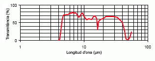 Typical combined window and solar blind filter transmittance for CGR 4 model pyrgeometer (Catalan version)